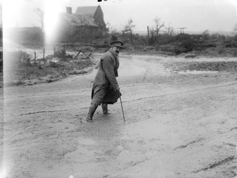 The war artist Lieutenant Muirhead Bone crossing a muddy road, Maricourt, September 1916.